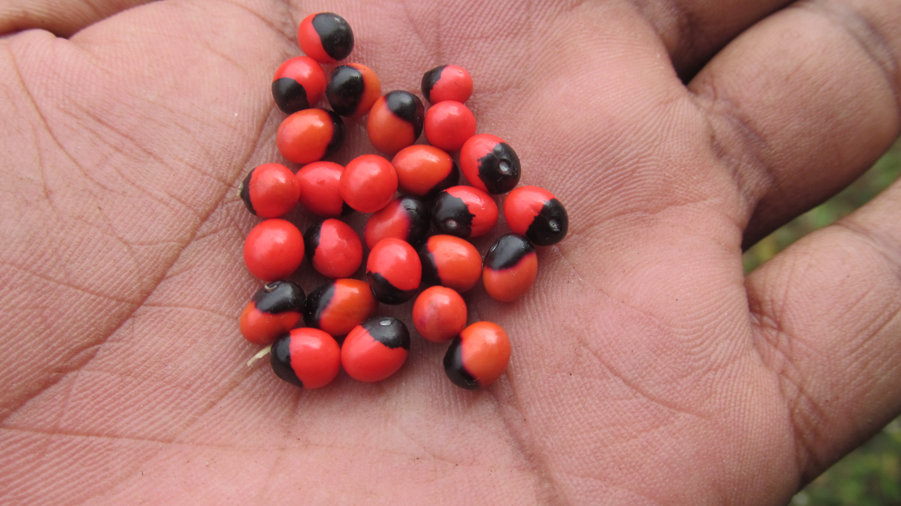 കുന്നി (Jequirity), Abrus precatorius